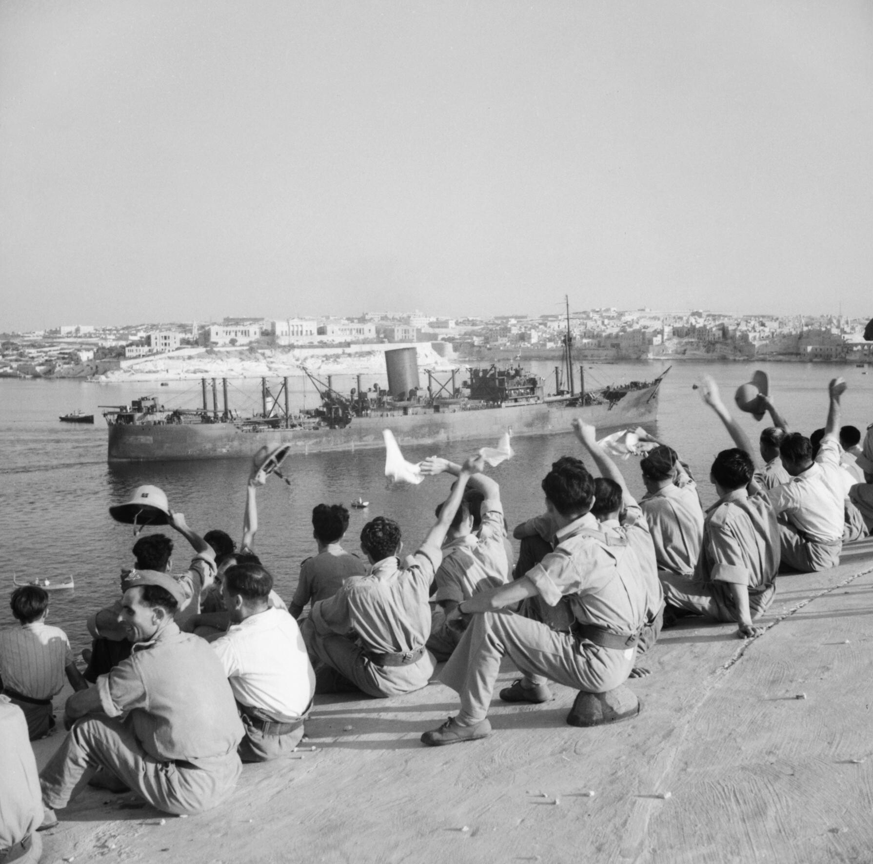 The British Army on Malta 1942 Troops cheer as they watch Melbourne Star entering the Grand Harbour carrying supplies and reinforcements, August 1942.